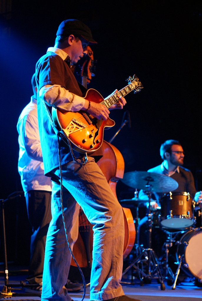 Kurt Rosenwinkel peforming in April 2010.